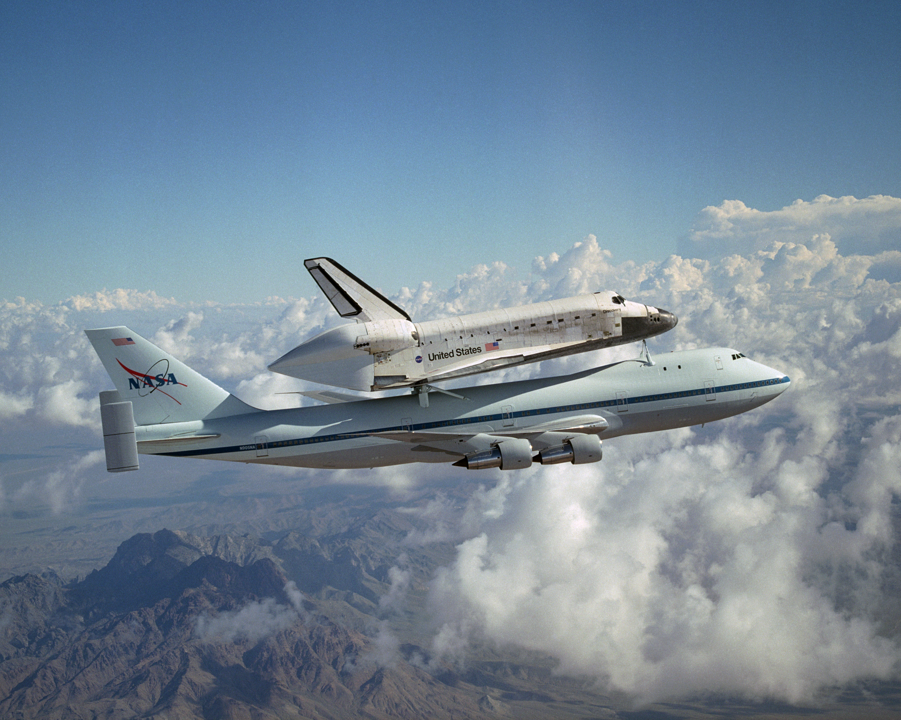 The Space Shuttle Discovery hitched a ride on NASA's modified Boeing 747 Shuttle Carrier Aircraft for the flight from the Dryden Flight Research Center in California, to Kennedy Space Center, Florida, on August 19, 2005. The cross-country ferry flight to return Discovery to Florida after it's landing in California will take two days, with stops at several intermediate points for refueling. Space Shuttle Discovery landed safely at NASA's Dryden Flight Research Center at Edwards Air Force Base in California at 5:11:22 a.m. PDT, August 9, 2005, following the very successful 14-day STS-114 return to flight mission.